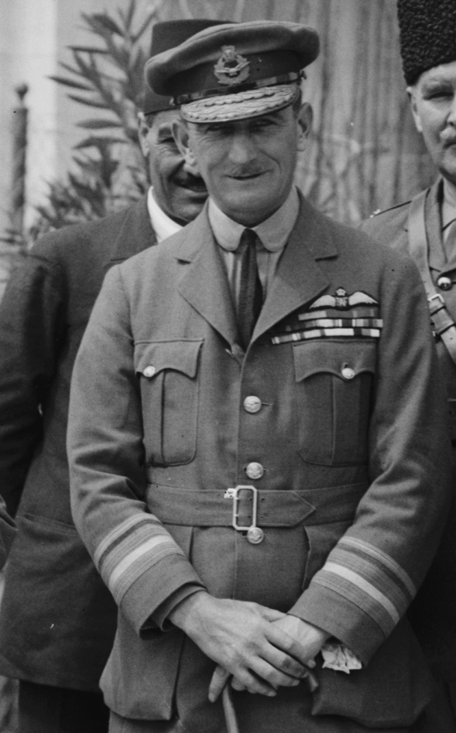 Photograph of Air Vice-Marshal Sir Geoffrey Salmond at the 1920 Cario Conference, cropped from "The new era in Palestine". The arrival of Sir Herbert Samuel, H.B.M. high commissioner.